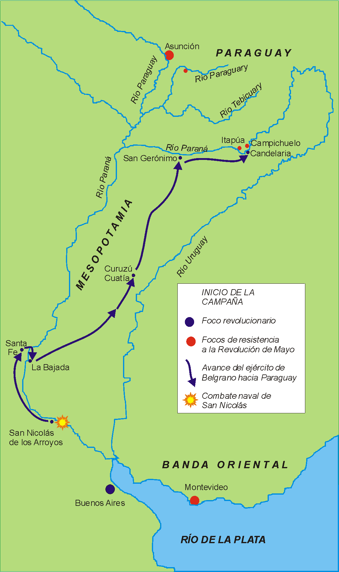 Map of the advance of revolutionaries towards Paraguay in 1810